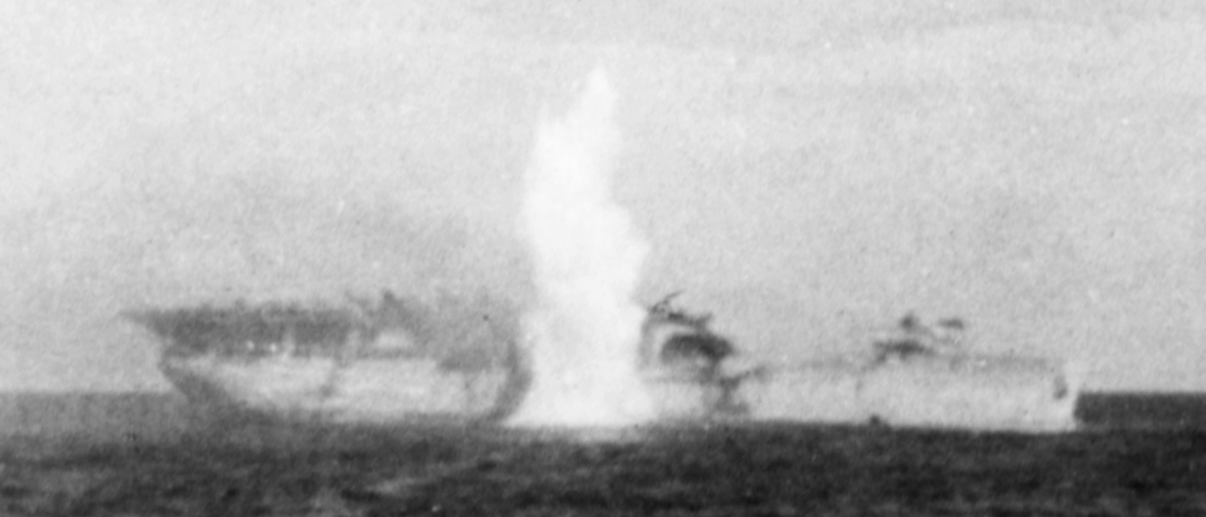 The U.S. Navy seaplane tender USS Langley (AV-3) is torpedoed by USS Whipple (DD-217), after being abandoned, south of Java, 27 February 1942.